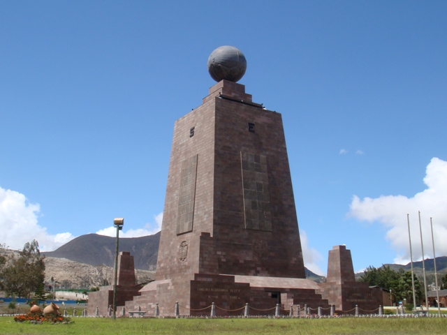 The equatorial monument named "The Middle of the World" in Spanish.